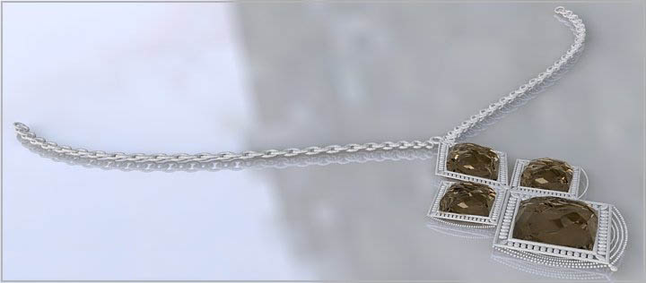 Necklace design using 3D computer graphics